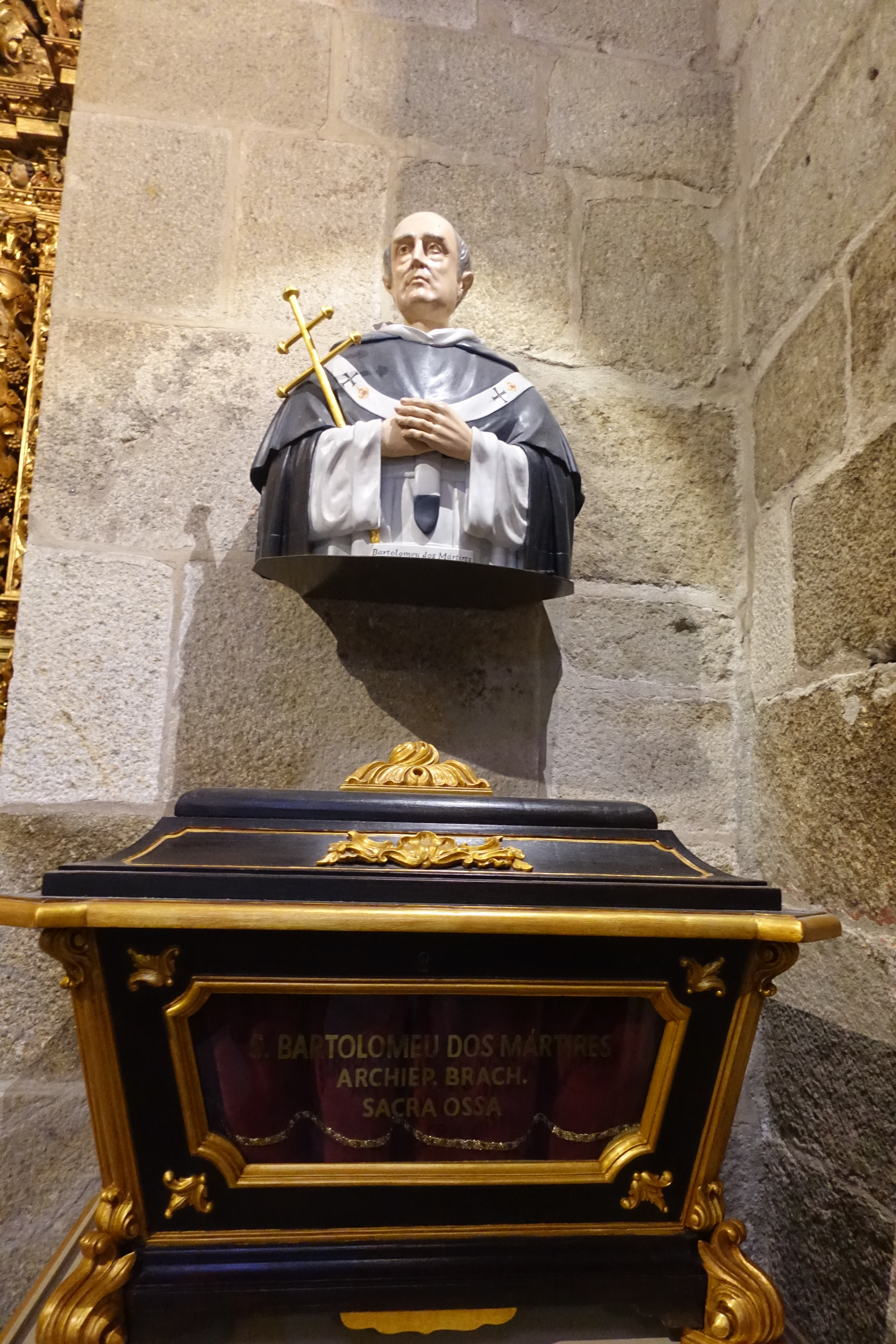 Interior of Sé de Braga, Portugal